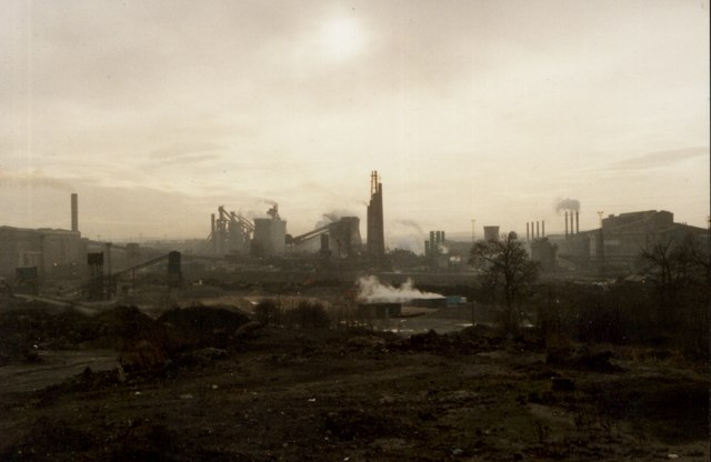 Ravenscraig Steel Works - shortly before it close in the mid-1990s